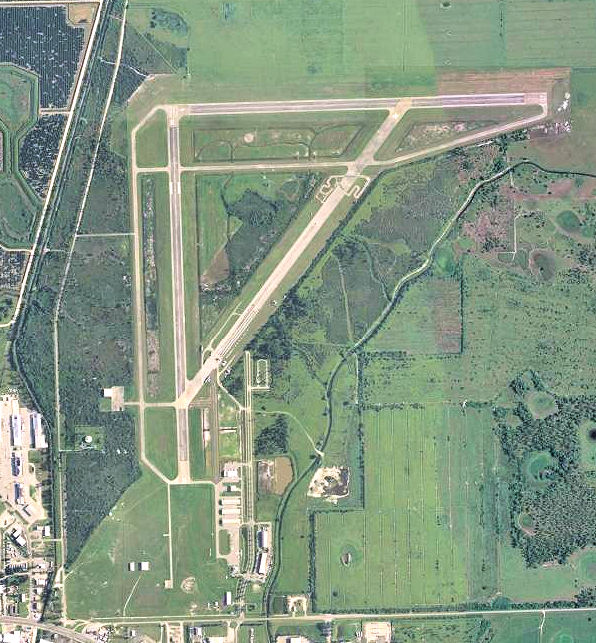 Immokalee Airport - Florida